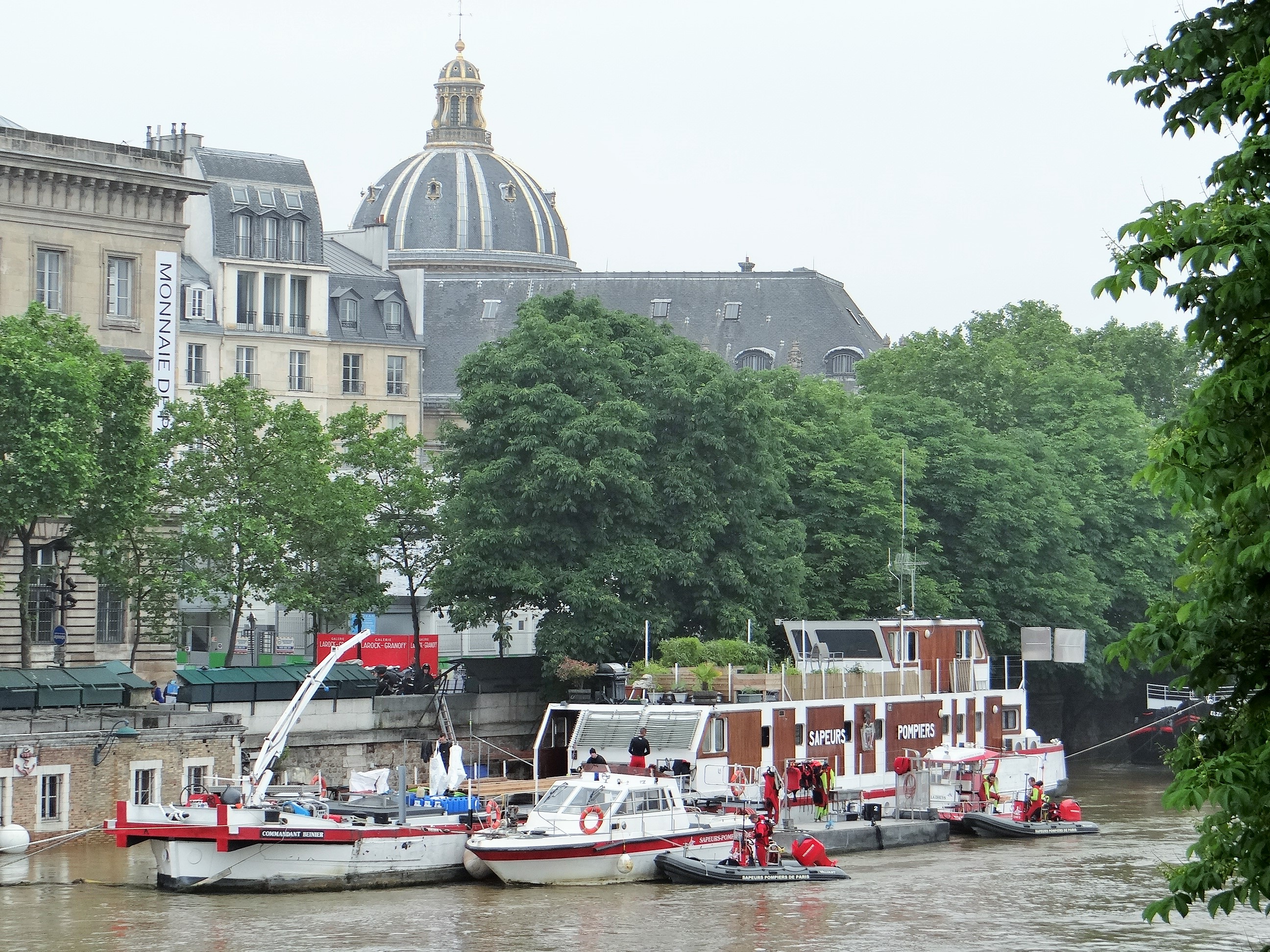 support center and emergency of Paris firefighters La Monnaie during the flood in June 2016